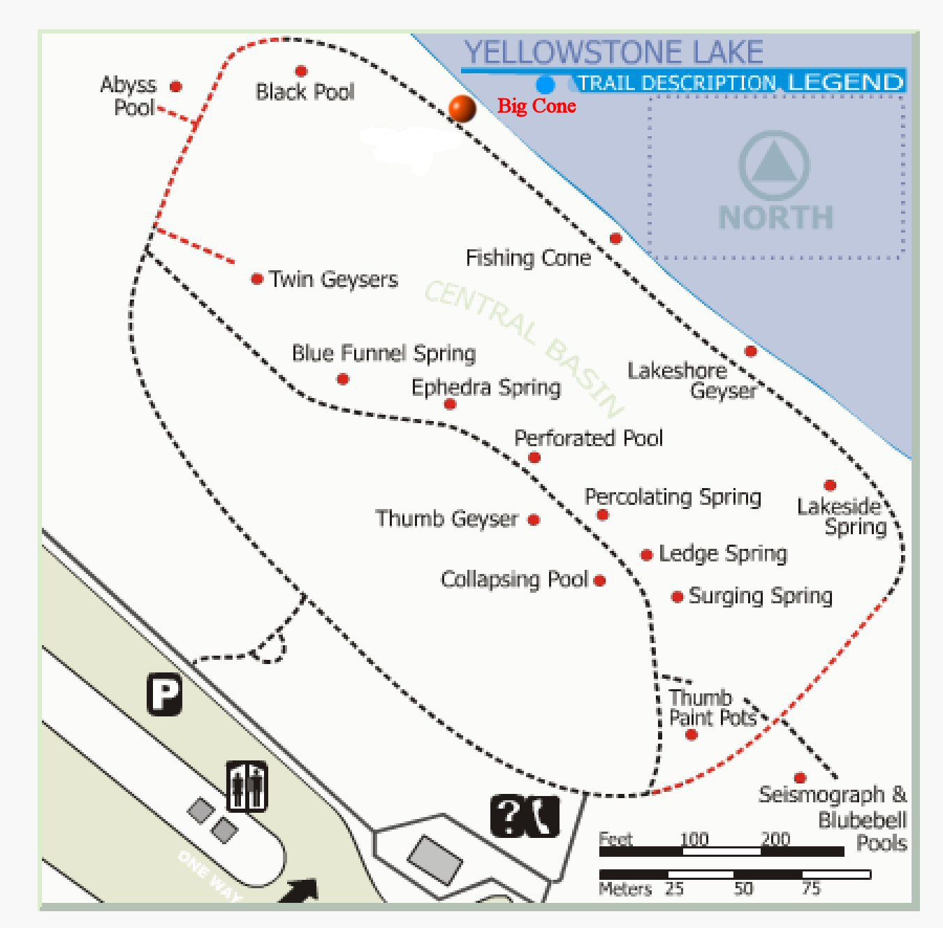 West Thumb Geyser Basin, Yellowstone National Park, Wyoming with Big Cone annotated